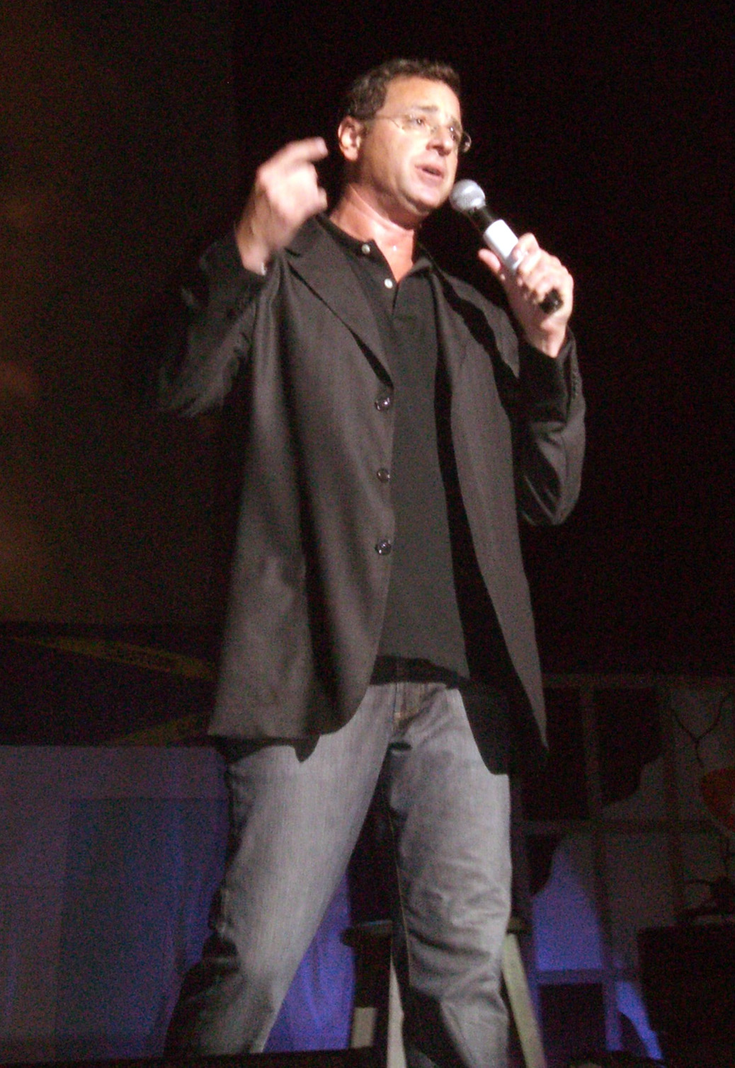 Bob Saget at the O&A Traveling Virus, 2007.